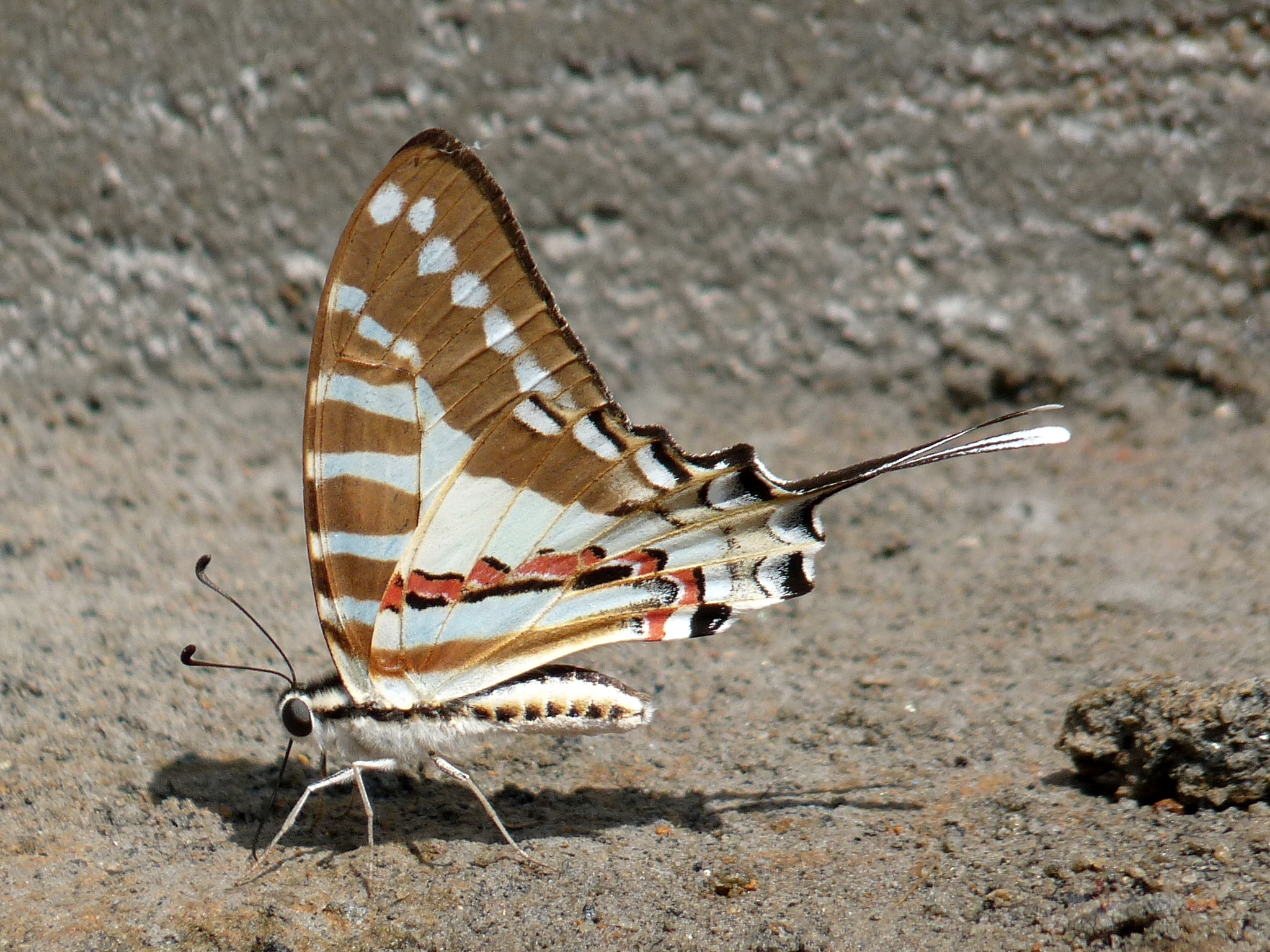 The Spot Swordtail (Graphium nomius) Spot Swordtail (Graphium nomius) is a beautiful butterfly found in India that belongs to the Swallowtail family. One of the grandest sights is a host of Spot Swordtails mud-puddling or swarming around a flowering forest tree. The Spot Swordtail gets its name from the beautiful line of distinct white spots along the margin of its wings. It was summer and I was watering the newly plastered surfaces of my compound wall; this little cute came and started drinking from the wet soil around. I put the hose down and ran for my camera. She was very busy wandering around, tasting each flavours, so didn’t care me. And I think she liked the taste of cement too. :) Taken at Kadavoor, Kerala, India.